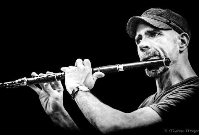 Kevin Crawford playing the traditional Irish flute